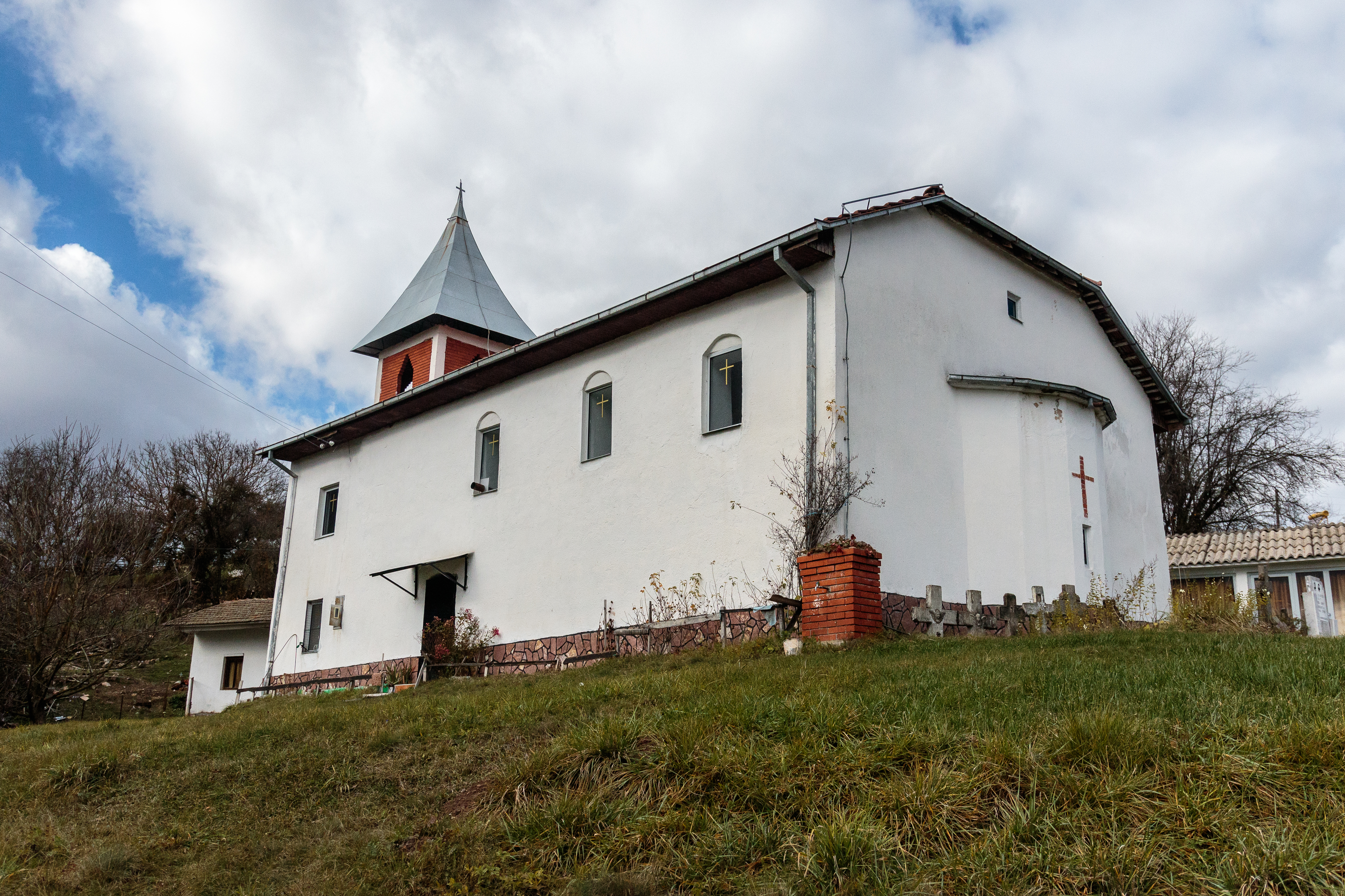 Church of the Theotokos in the village of Dvorište, Maleševija, Macedonia